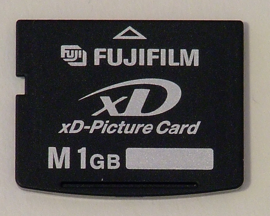 xD flash memory card, 1G, Fujifilm, Front.